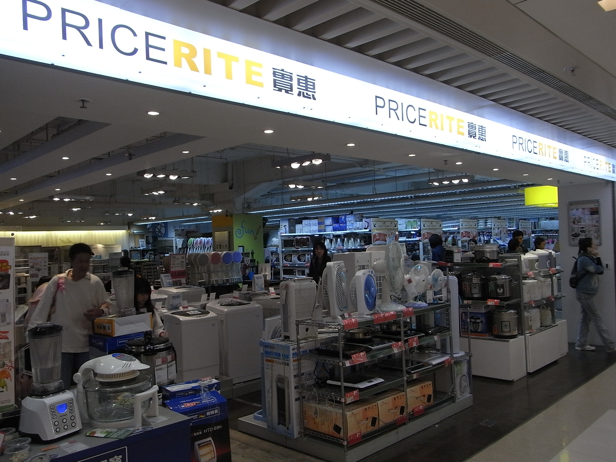 zh:2010年3月 黃大仙中心 商場鋪位 - 實惠家居